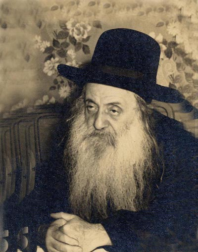 Rabbi Shimon Sholom Kalish,(1882-1954), Rebbe of Amshinov-Otvotsk. Source hydepark.hevre.co.il